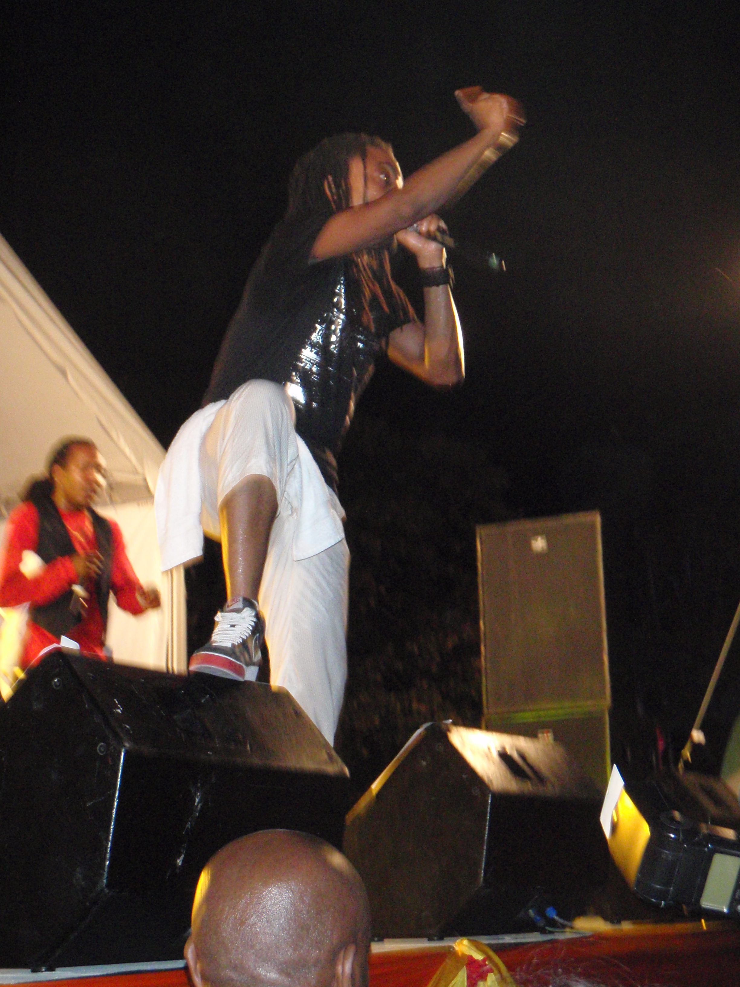 Soca artist Machel Montano from Trinidad and Tobago on stage at a fete in Barbados in 2008